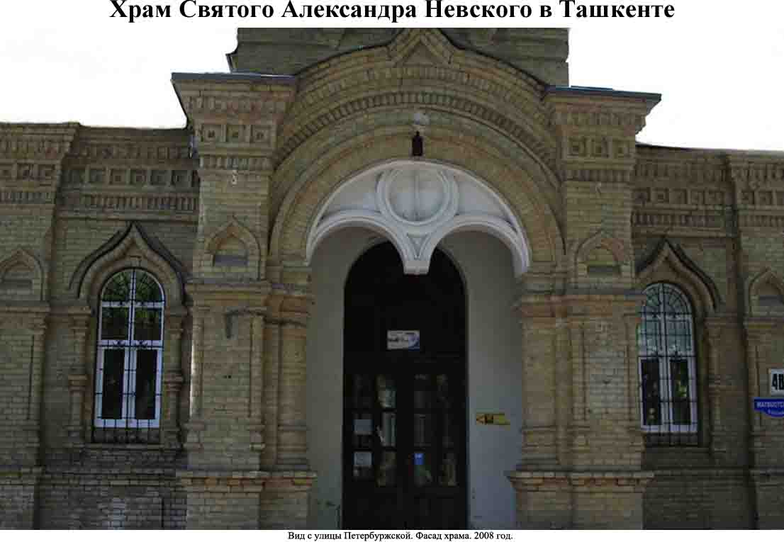 Church of St. Alexander Nevsky Cathedral in Tashkent